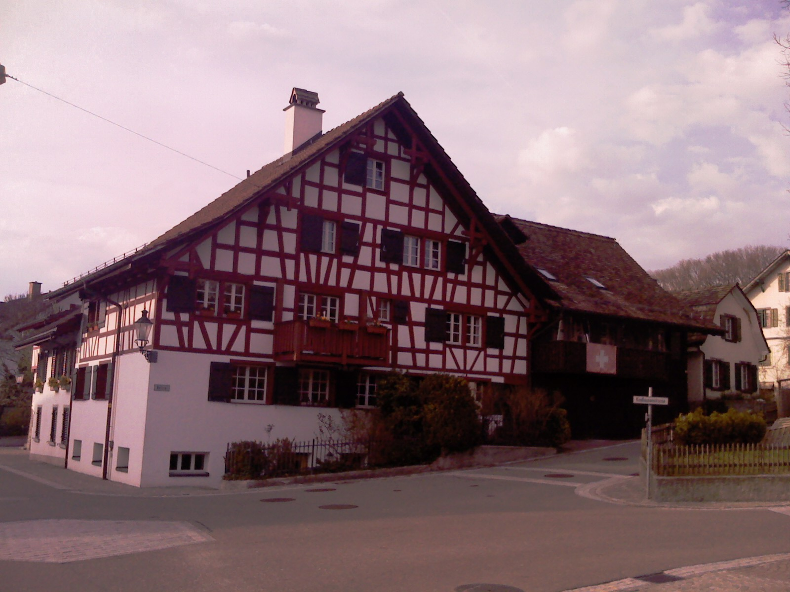 Timber raming house at the center of Wangen, municipality Wangen-Brüttisellen, canton of Zürich, SwitzerlandEsperanto: Faktrabdomo en la centro de Wangen, komunumo Wangen-Brüttisellen, Kantono Zuriko, Svislando